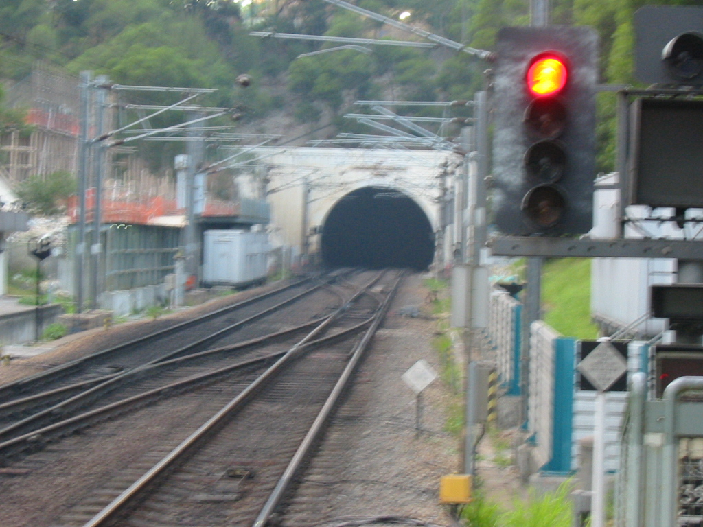 九廣東鐵的筆架山隧道九龍塘出口，由Wrightbus拍攝。 Beacon Hill Tunnel in KCR East Mail. Photo taken by Wrightbus.